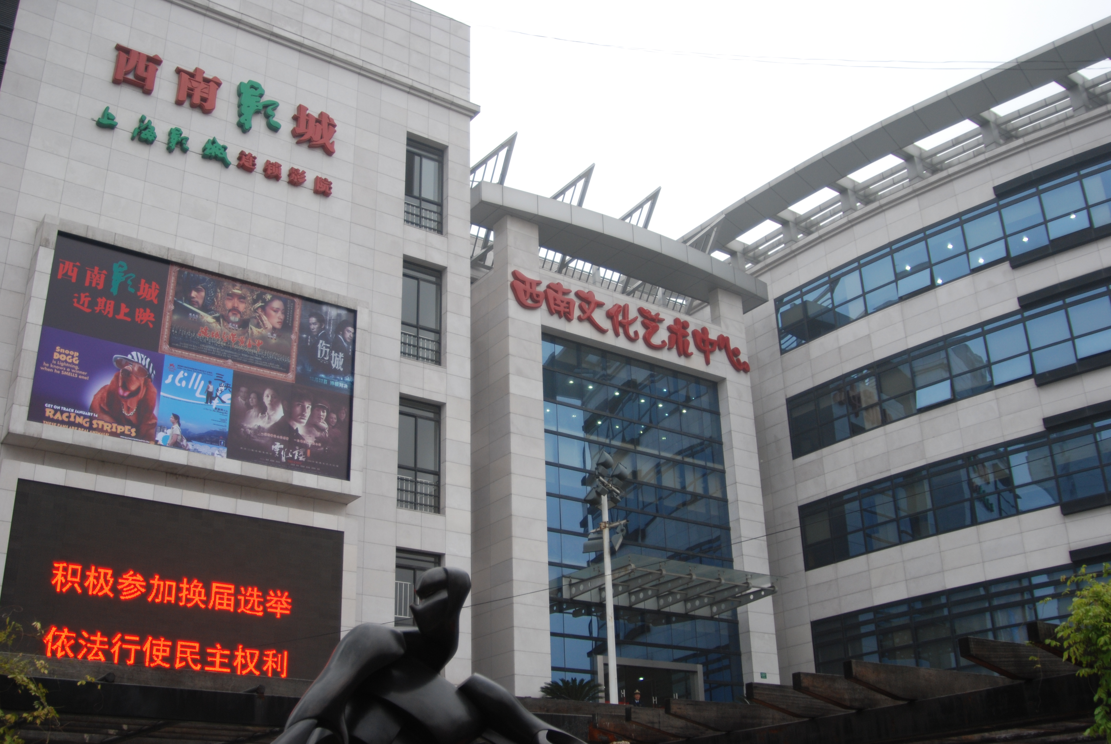 Luoxiang Road Community Center